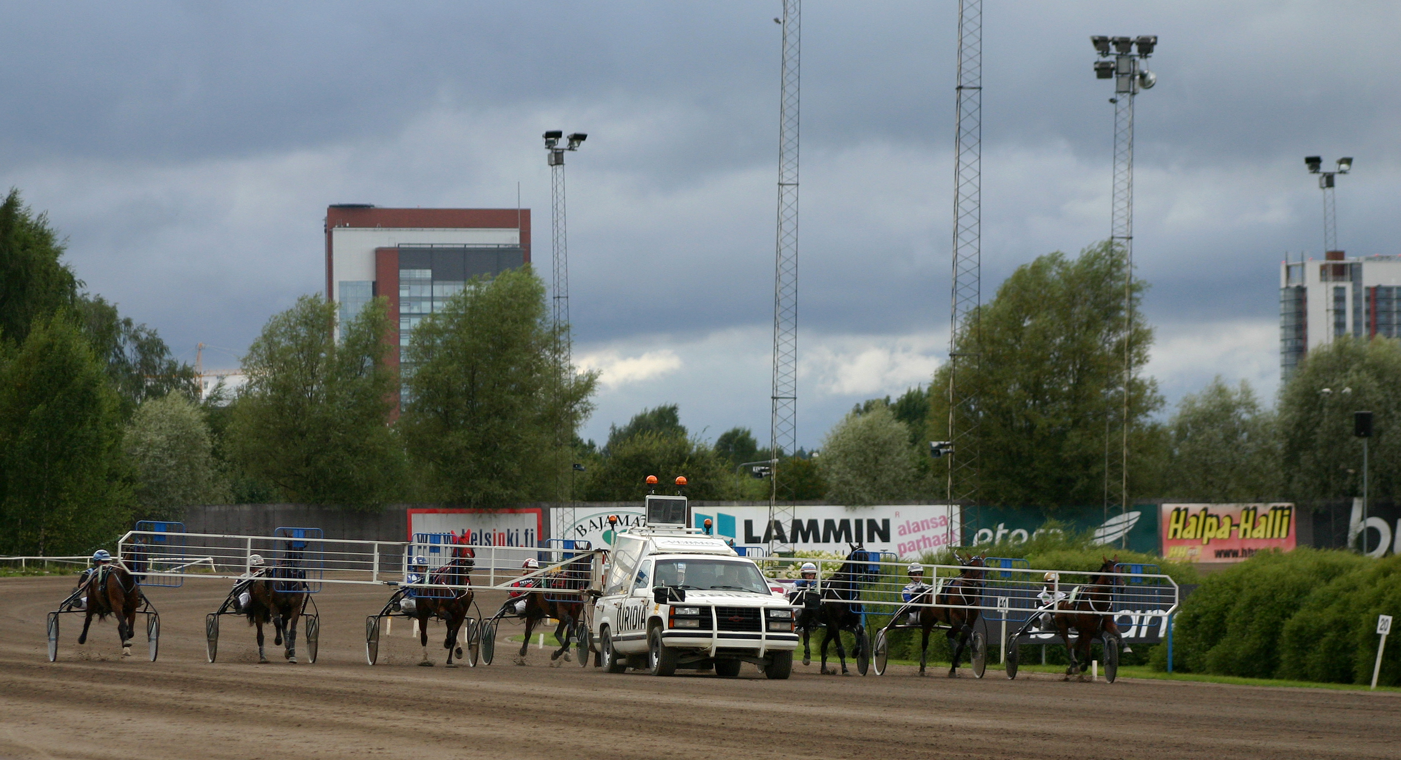 Car start at Vermo, 4th August 2010.